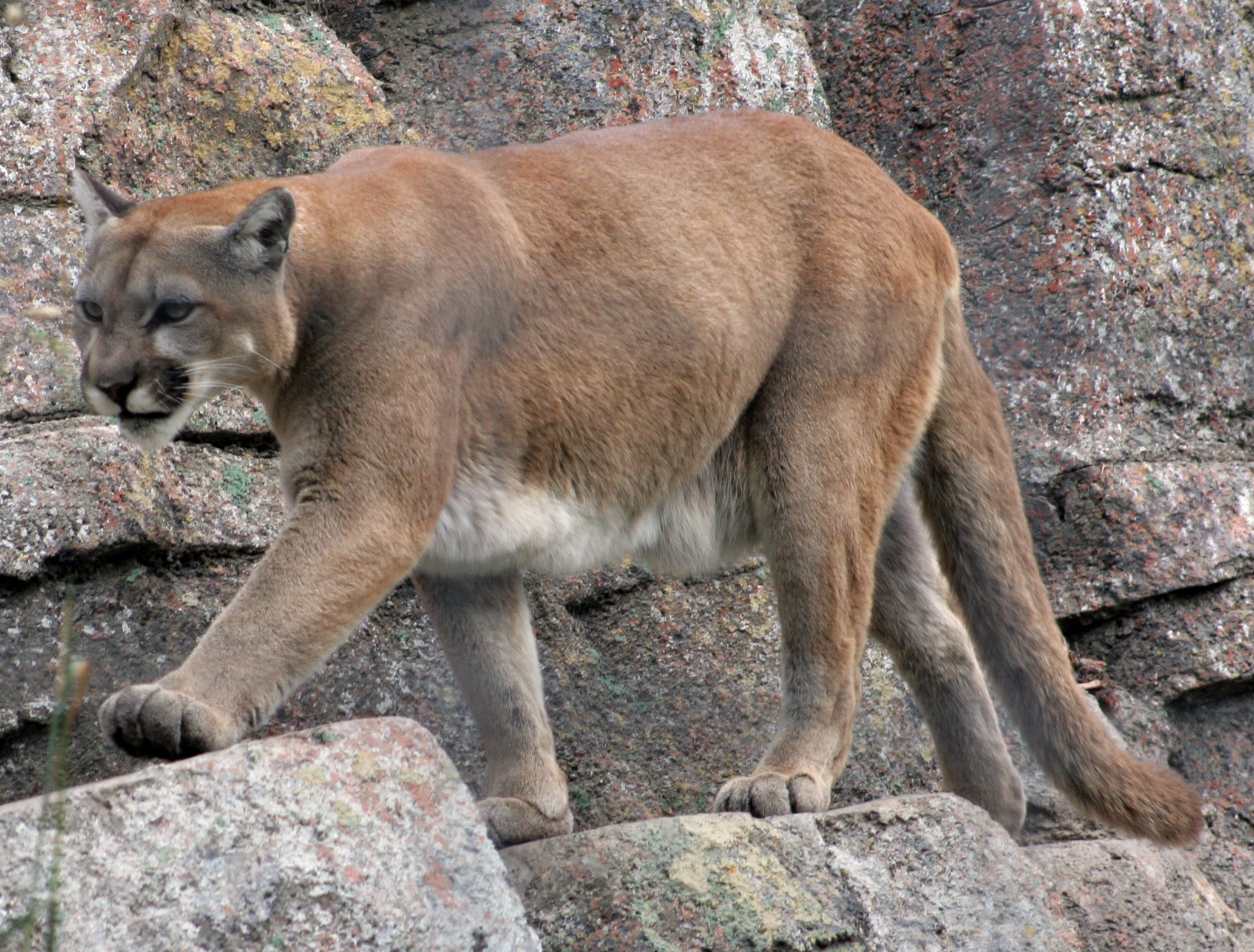 Annoyed Mountain Lion